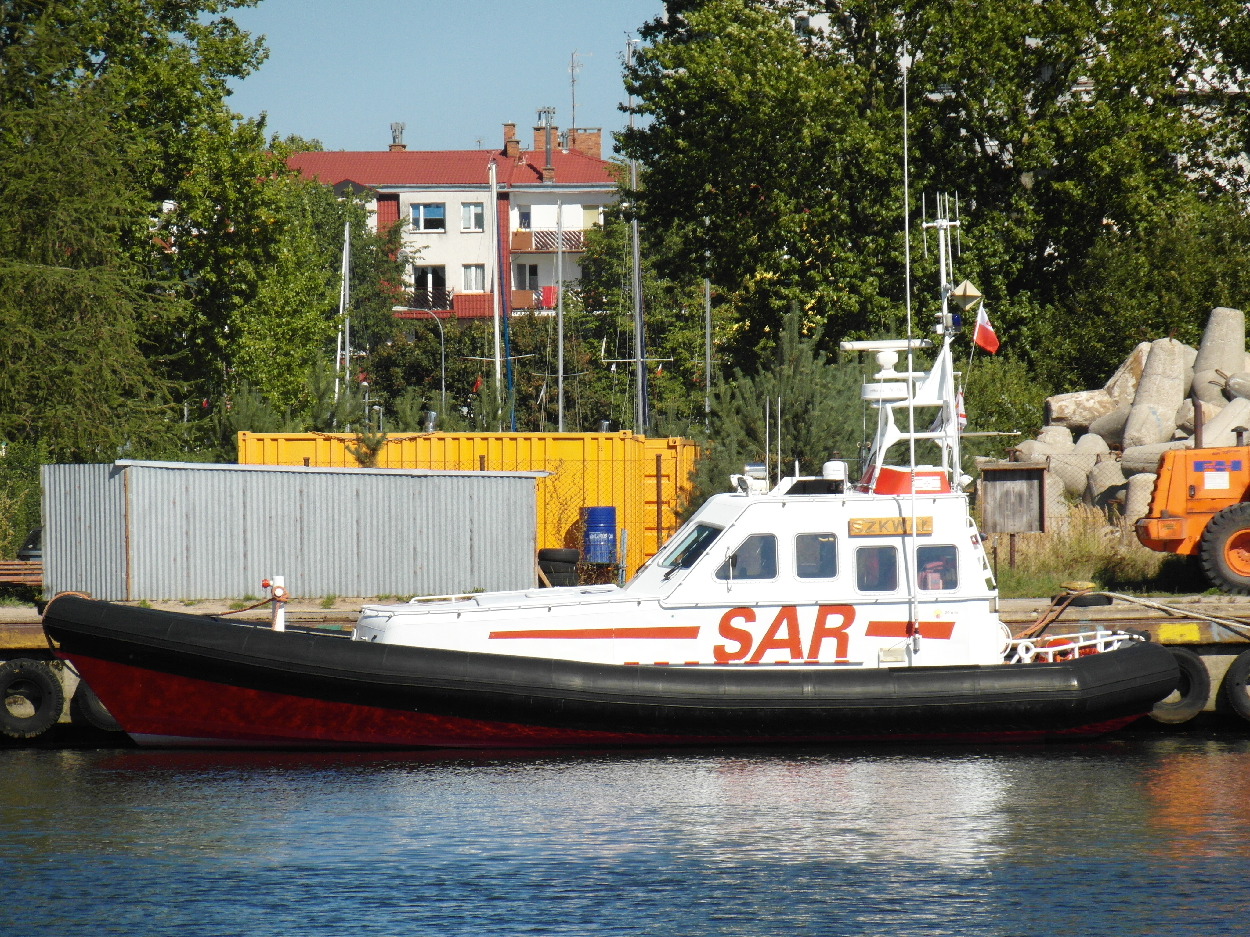 Typ: SAR-1500